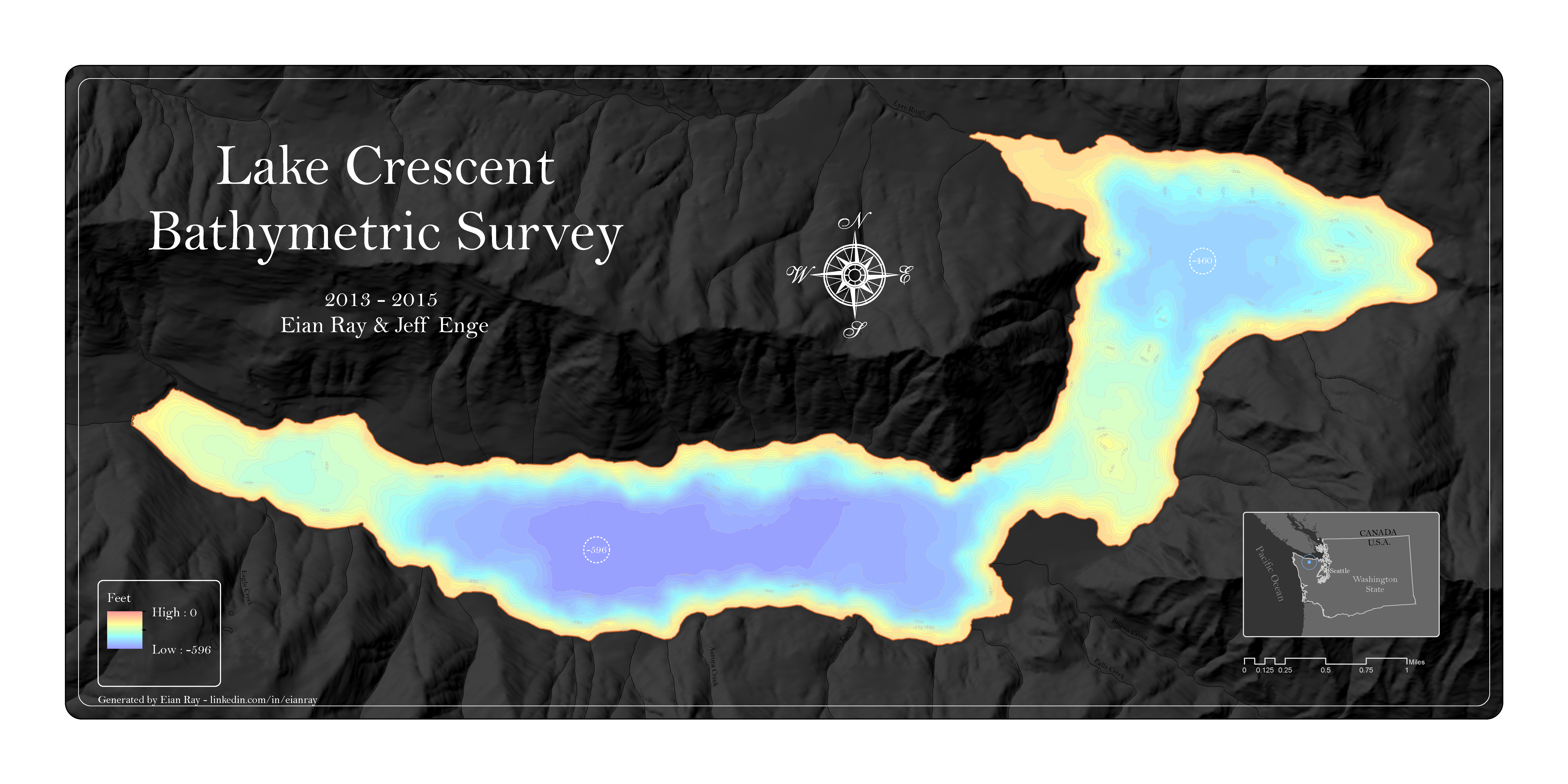 Map of Lake Crescent showing bathymetric lines at 25 foot intervals. Bathymetric contours were generated through an interpolation process of over 5,000 soundings.